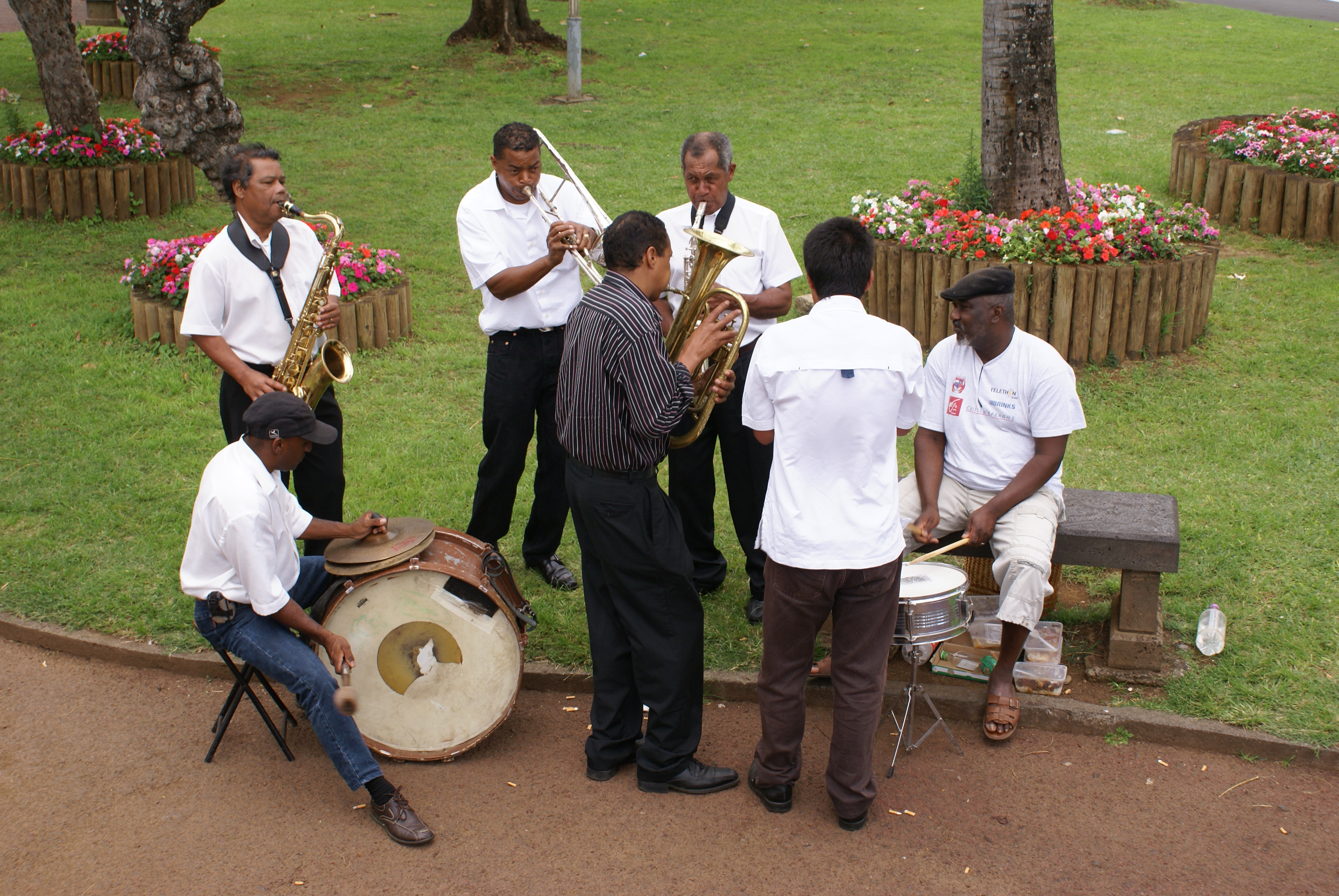 Séga band in the square of Saint-Pierre, Réunion island